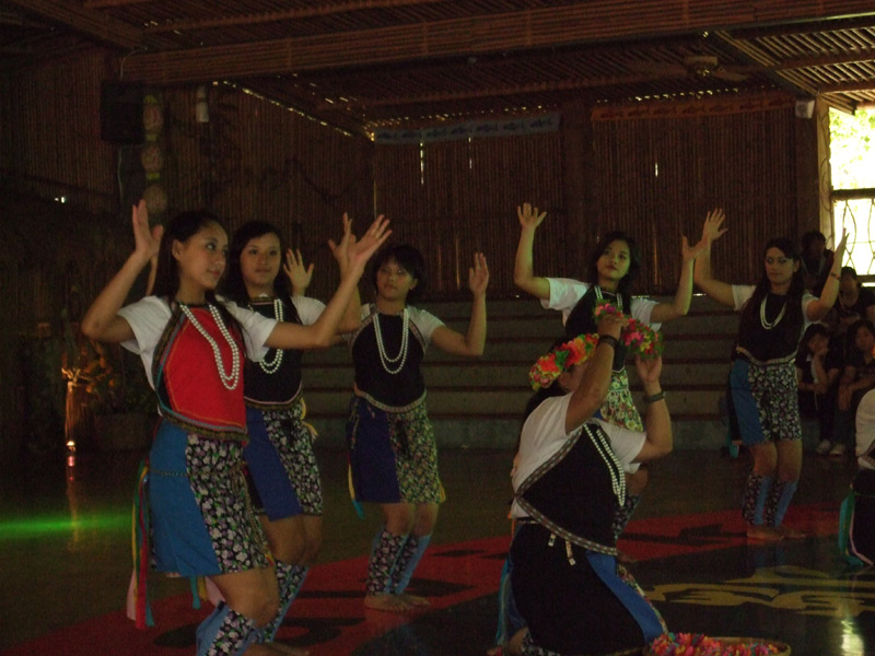 Tsou boys performanced traditional dancing in Taiwan.